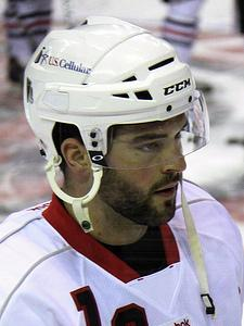 Brandon Bollig - picture taken Oct 1 2011 at a Rockford IceHogs game